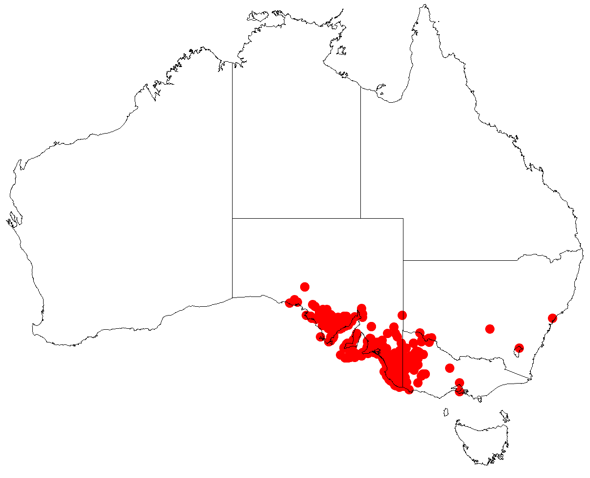 Billardiera cymosa occurrence data from Australasian Virtual Herbarium downloaded 5 July 2018